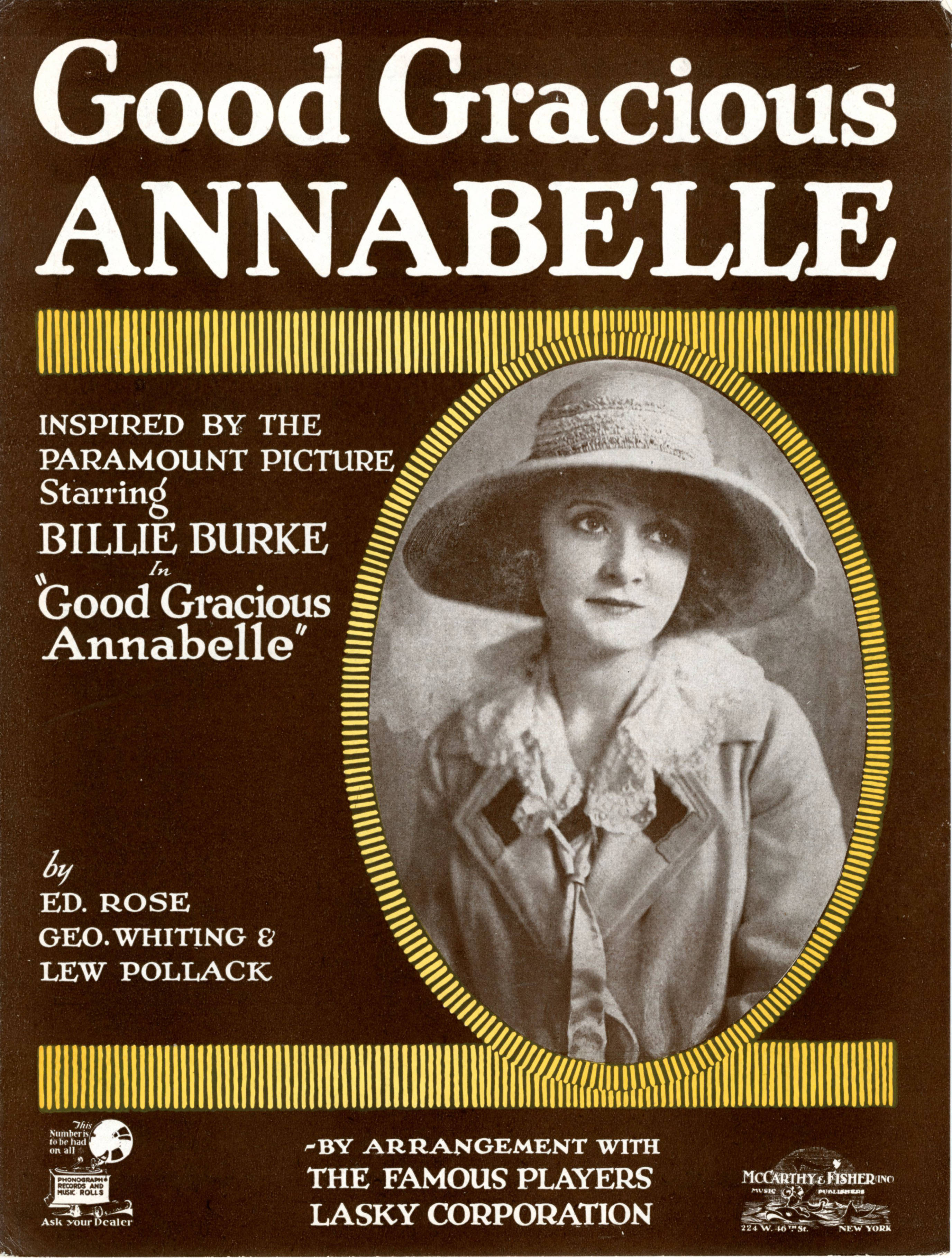 Sheet music cover: "Good Gracious Annabelle" 1 vocal score ([3] p.) ; 31 cm. Illustrated cover with image of Billie Burke. Good Gracious, Annabelle (Motion picture : 1919)